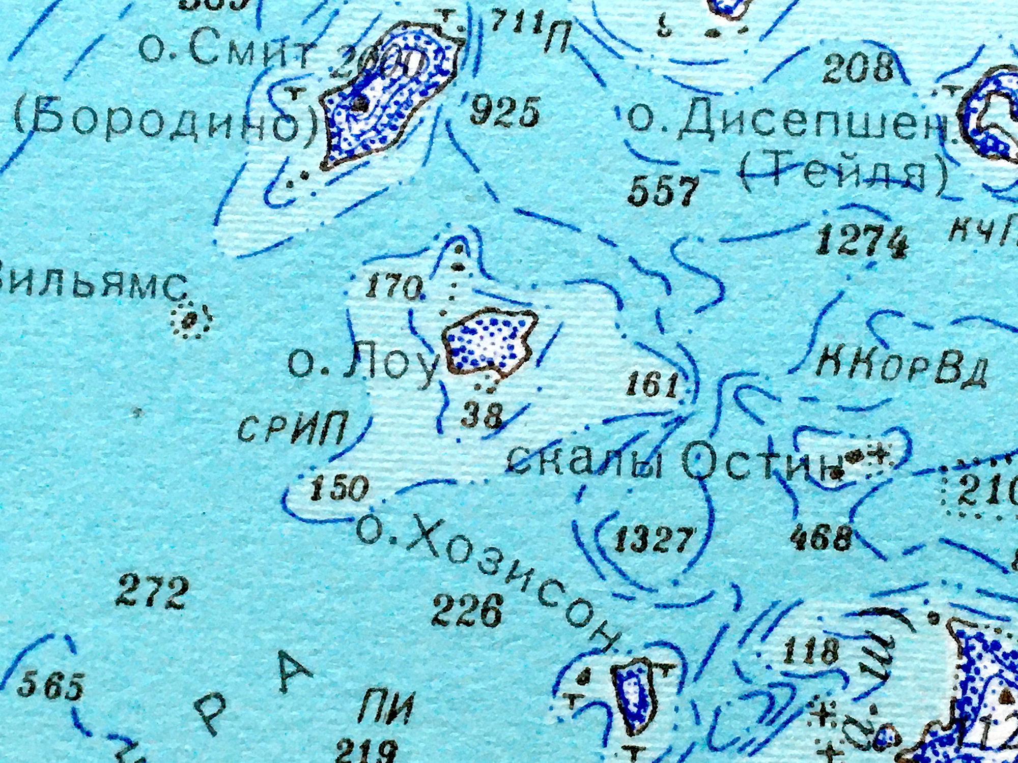 Maps of the Sea Atlas: Map 82 - Drake Passage.